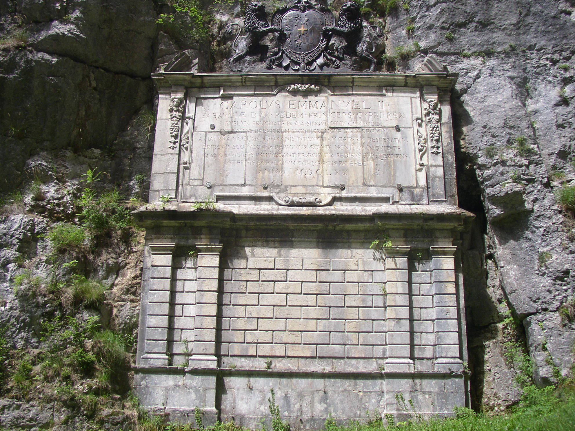 Sight in Savoie of the stele from Charles Emmanuel II of Savoy, in commemoration of the opening of the royal road from Italy to Lyon in France.